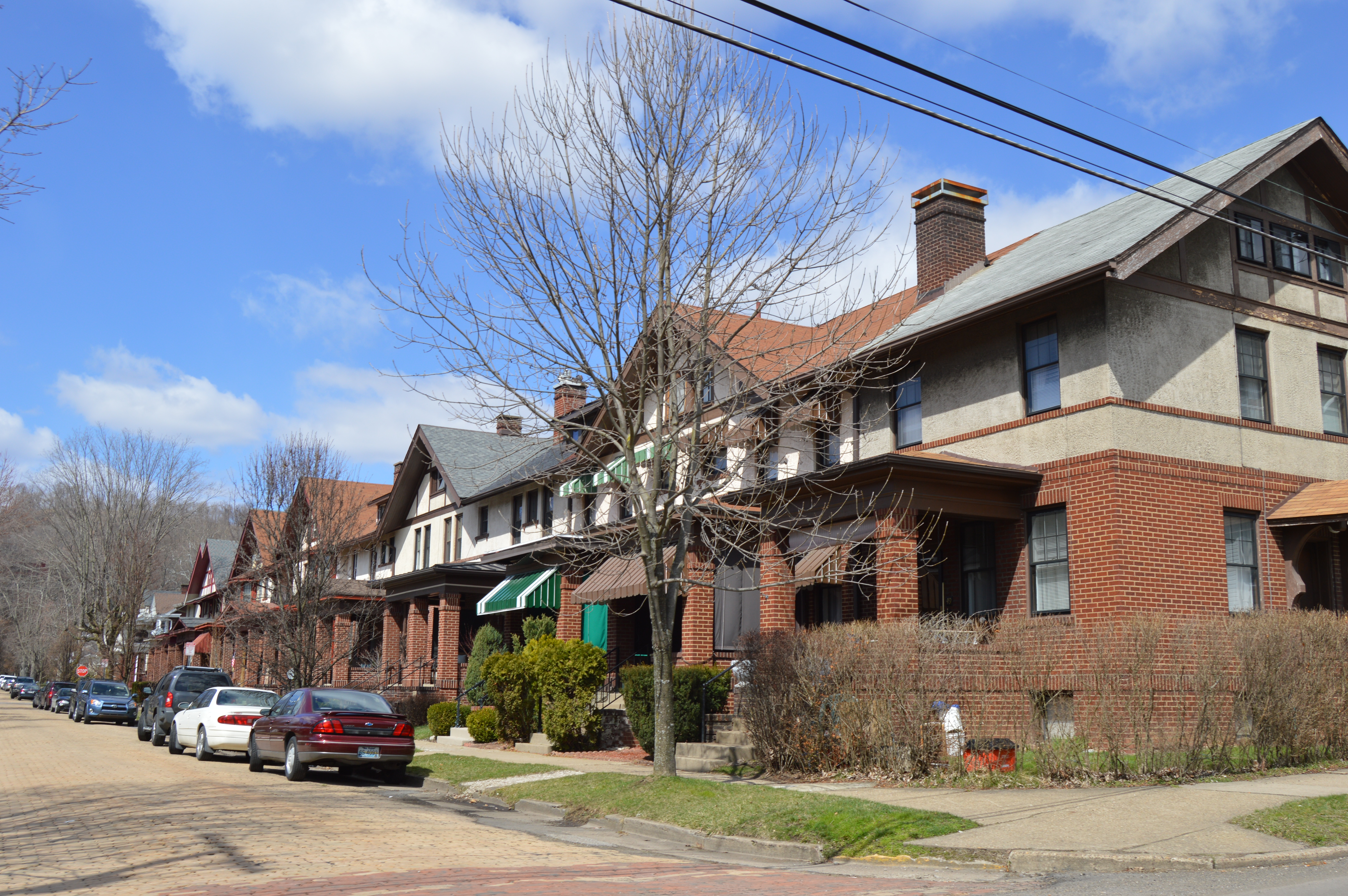 Tudor houses on the eastern side of Birch Avenue, seen looking north from Edgington Lane, in Wheeling, West Virginia, United States. The neighborhood is part of the Woodsdale-Edgewood Neighborhood Historic District, a historic district that is listed on the National Register of Historic Places.